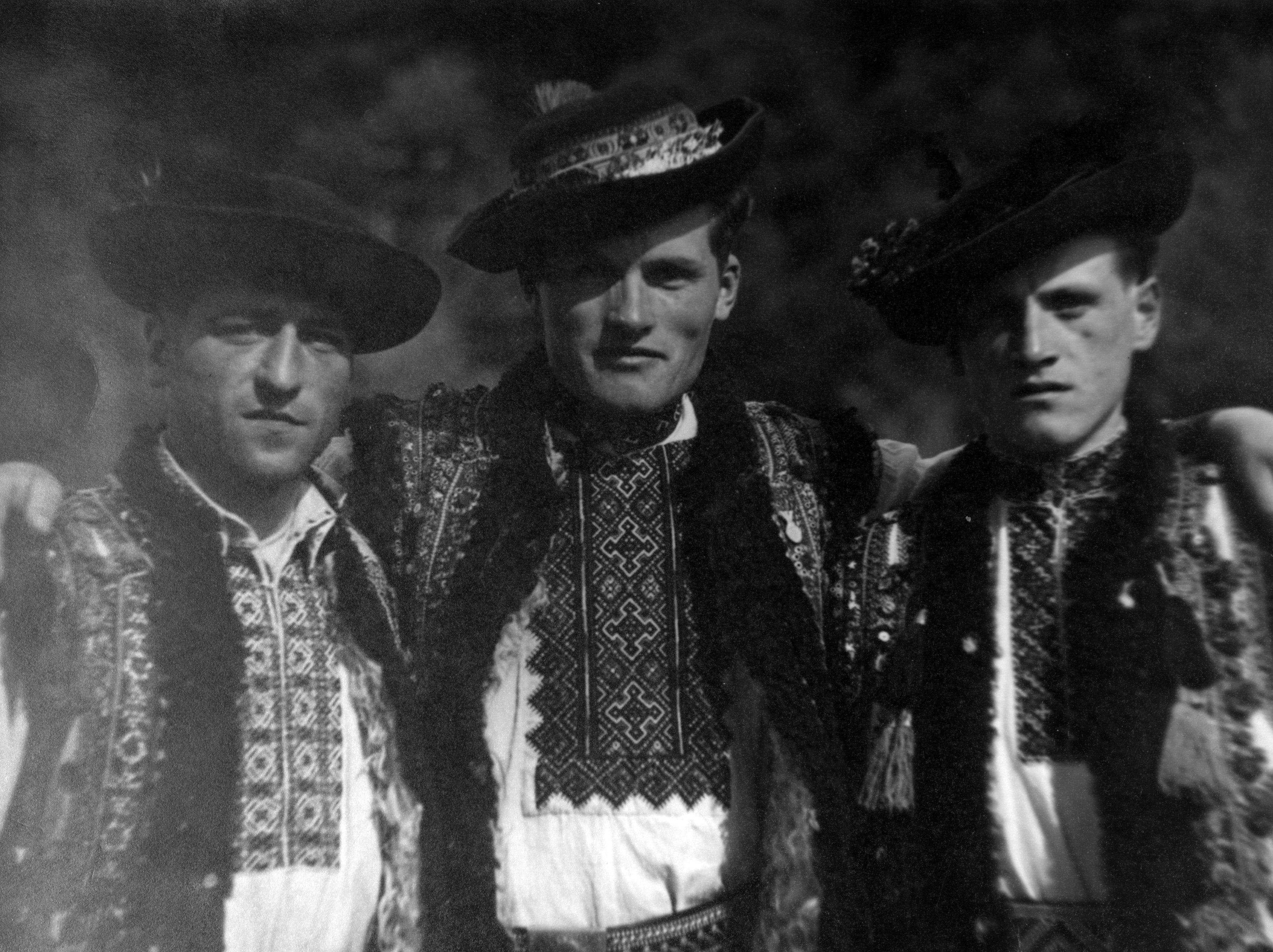 Hutsuls (Ukrainian highlanders) from Verkhovyna district, southern part of Ivano-Frankivsk oblast (province), western Ukraine. old prewar photo.